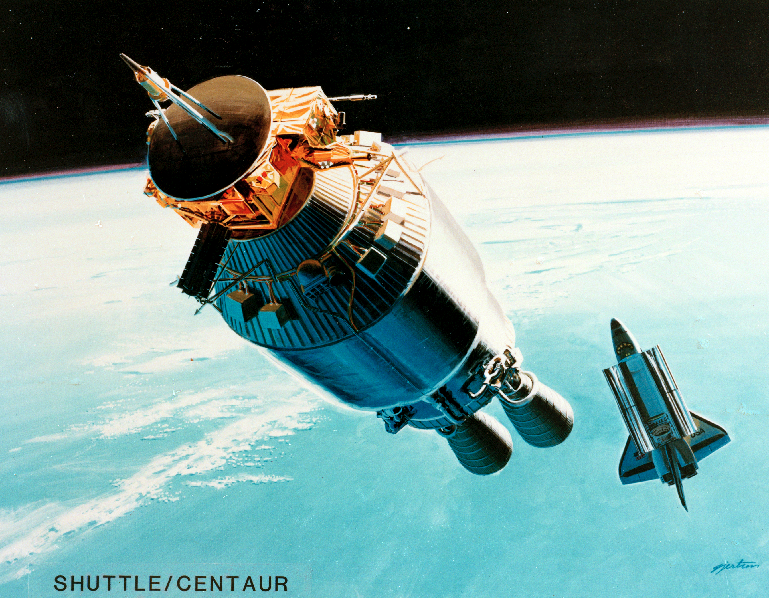 Project Art: The Centaur Version for the Space Shuttle after it‘s deployment from the Space Shuttle Corgo Bay. On top of the Centaur you can see the Ulysses Spaceprobe. (Ulysses used later a IUS/Pam-S upper stage combination.)